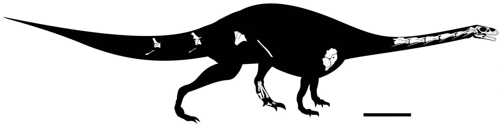 Silhouette reconstruction of the skeleton of Leyesaurus marayensis (PVSJ 706). Reconstruction only shows preserved bones. Modified from Martinez, 2009. Scale bar equals 25 cm.